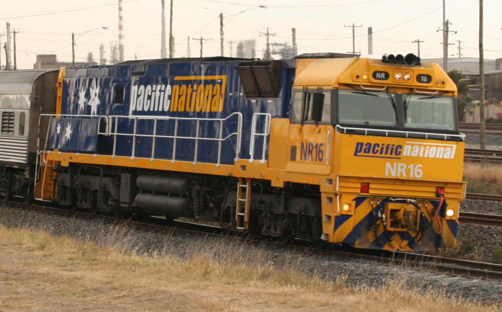 Pacific National 'with stars' liveried NR class diesel locomotive NR16 heads The Overland bound for Adelaide at North Shore Victoria